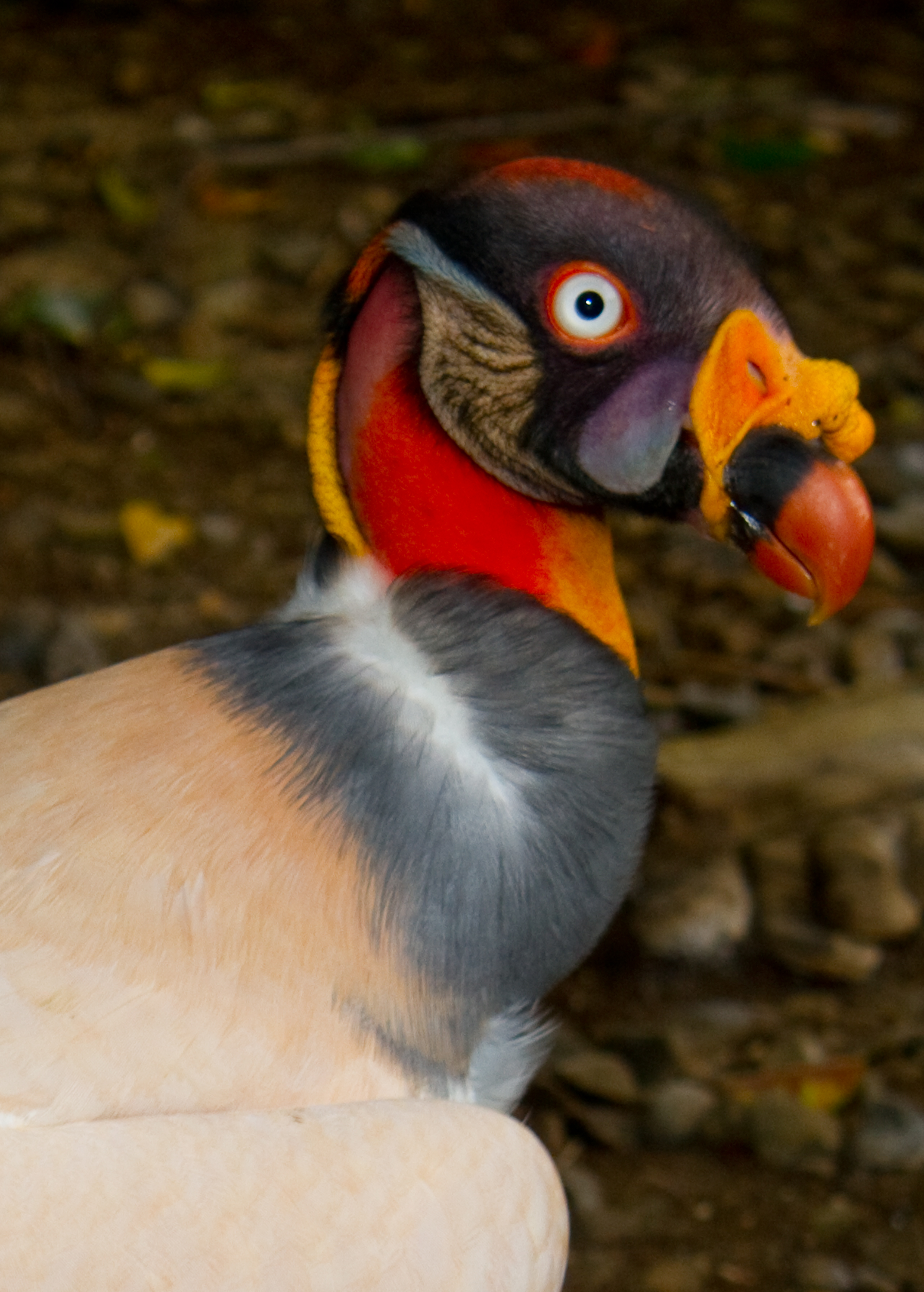 King Vulture (Sarcoramphus papa) in Panama.